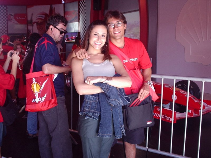 Brazilian journalist Nadja Haddad, in 2008.